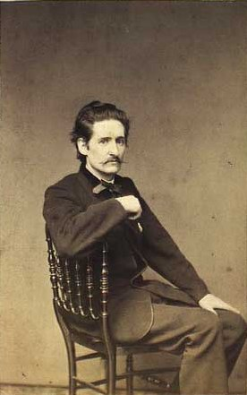 Edgar Collin (1836-1906), Danish writer and journalist